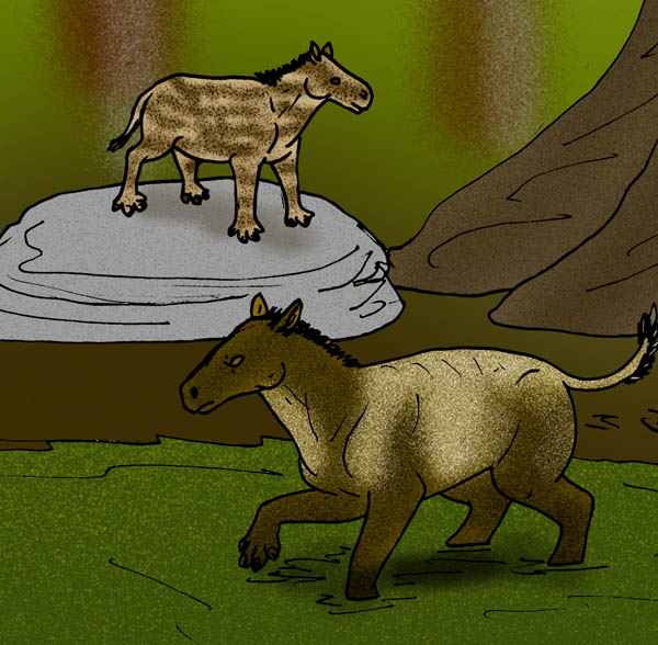 Eurohippus parvulum (on rock) and Propalaeotherium hassiacum (in water), of Mid Eocene Messel, Germany